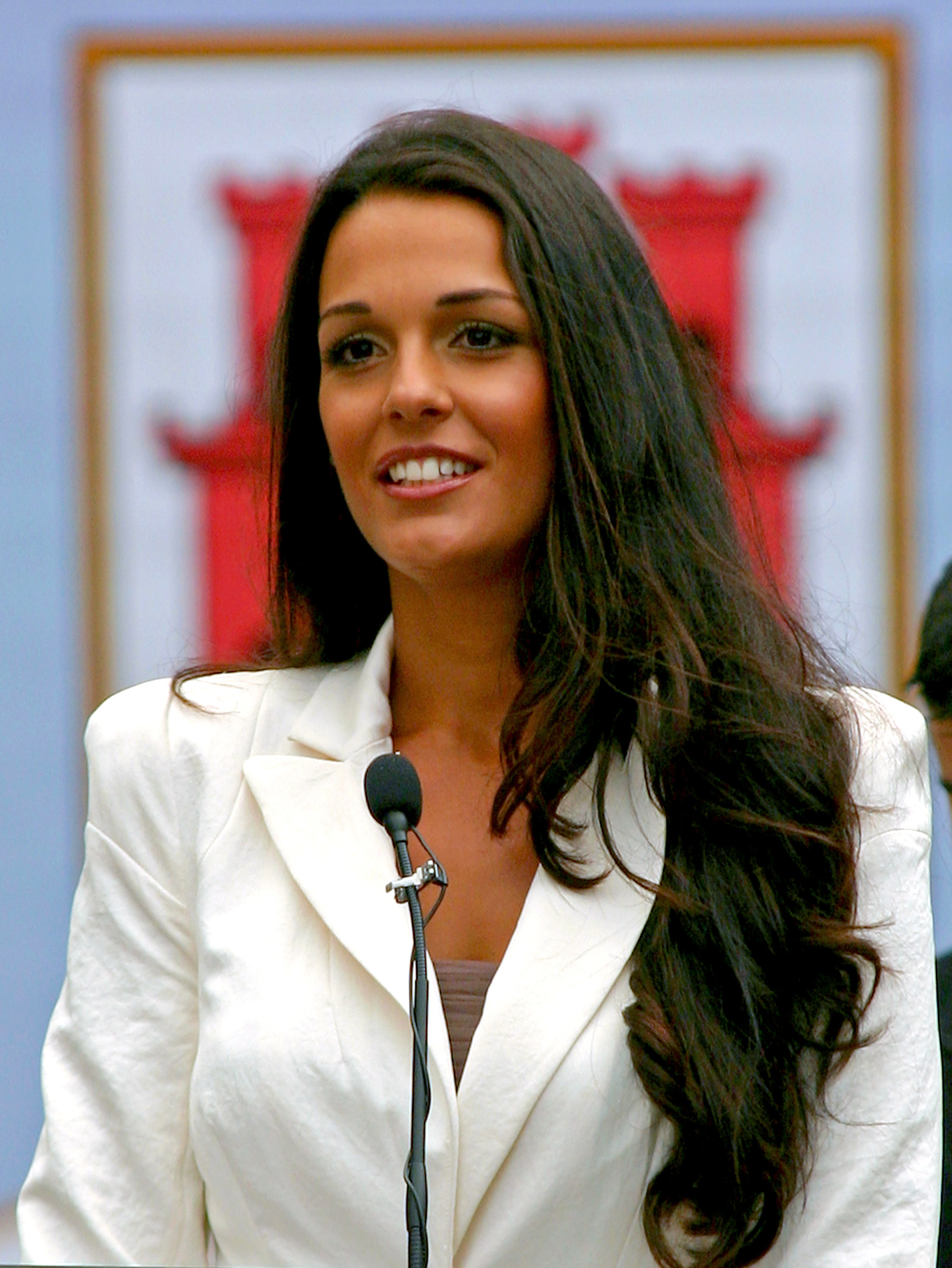 Miss World and Miss Gibraltar 2009, Kaiane Aldorino was officially awarded the Freedom of the City of Gibraltar which she received in a public ceremony on the 15th September 2011.